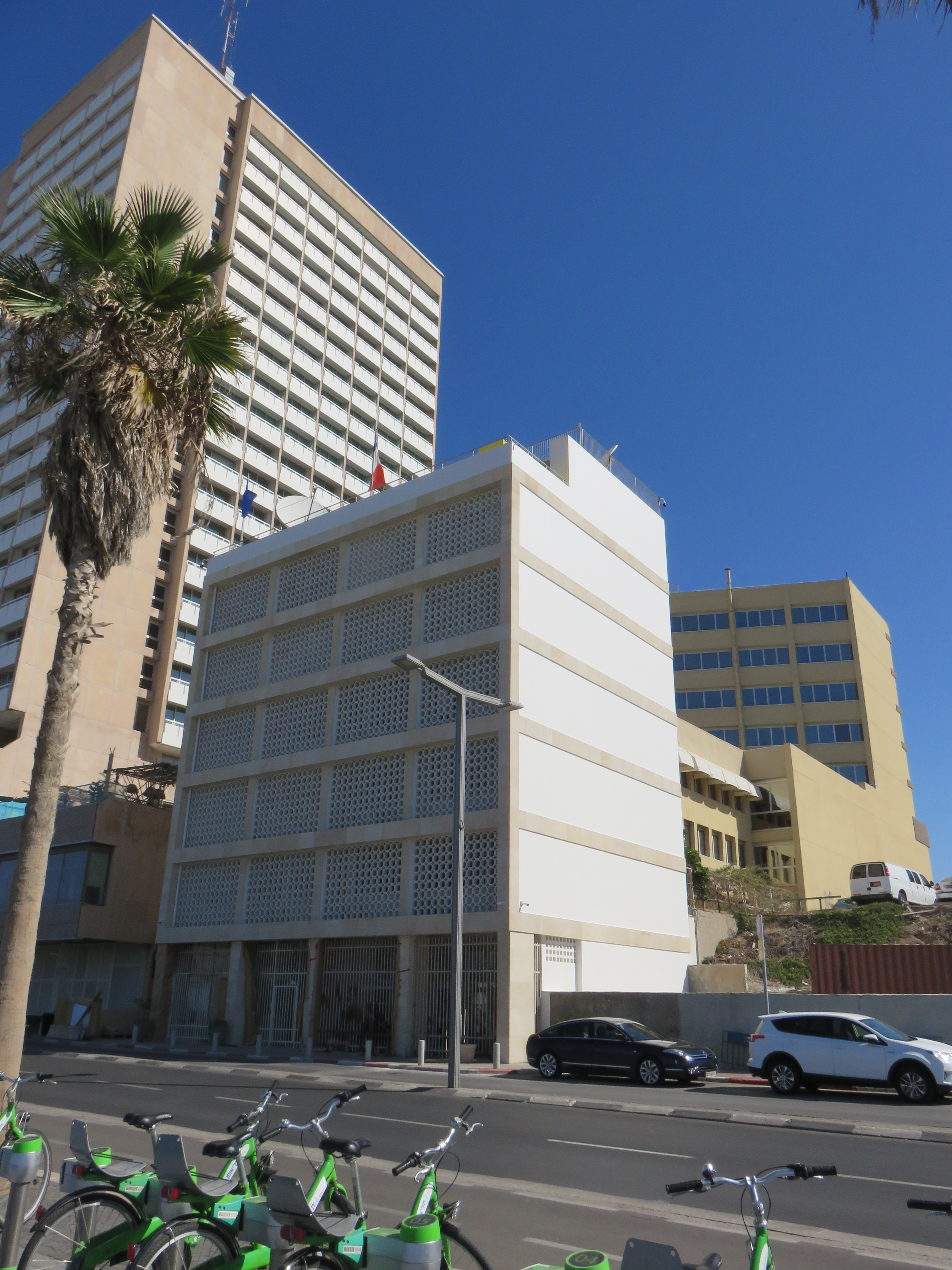 Photowalk through Tel Aviv with Nicolas Vigneron and Anne-Laure Michel